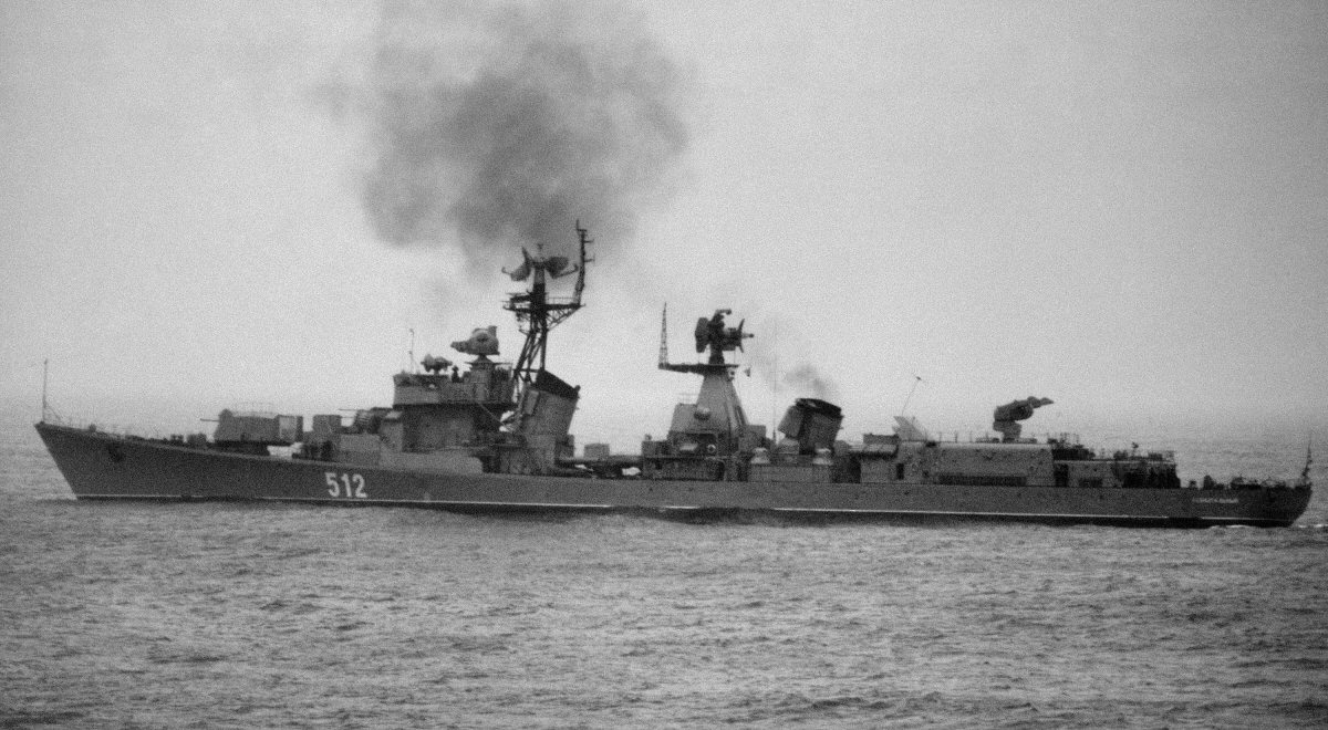 A port beam view of the Soviet Sam Kotlin Class Guided Missile Destroyer SOZNATELNYY underway.